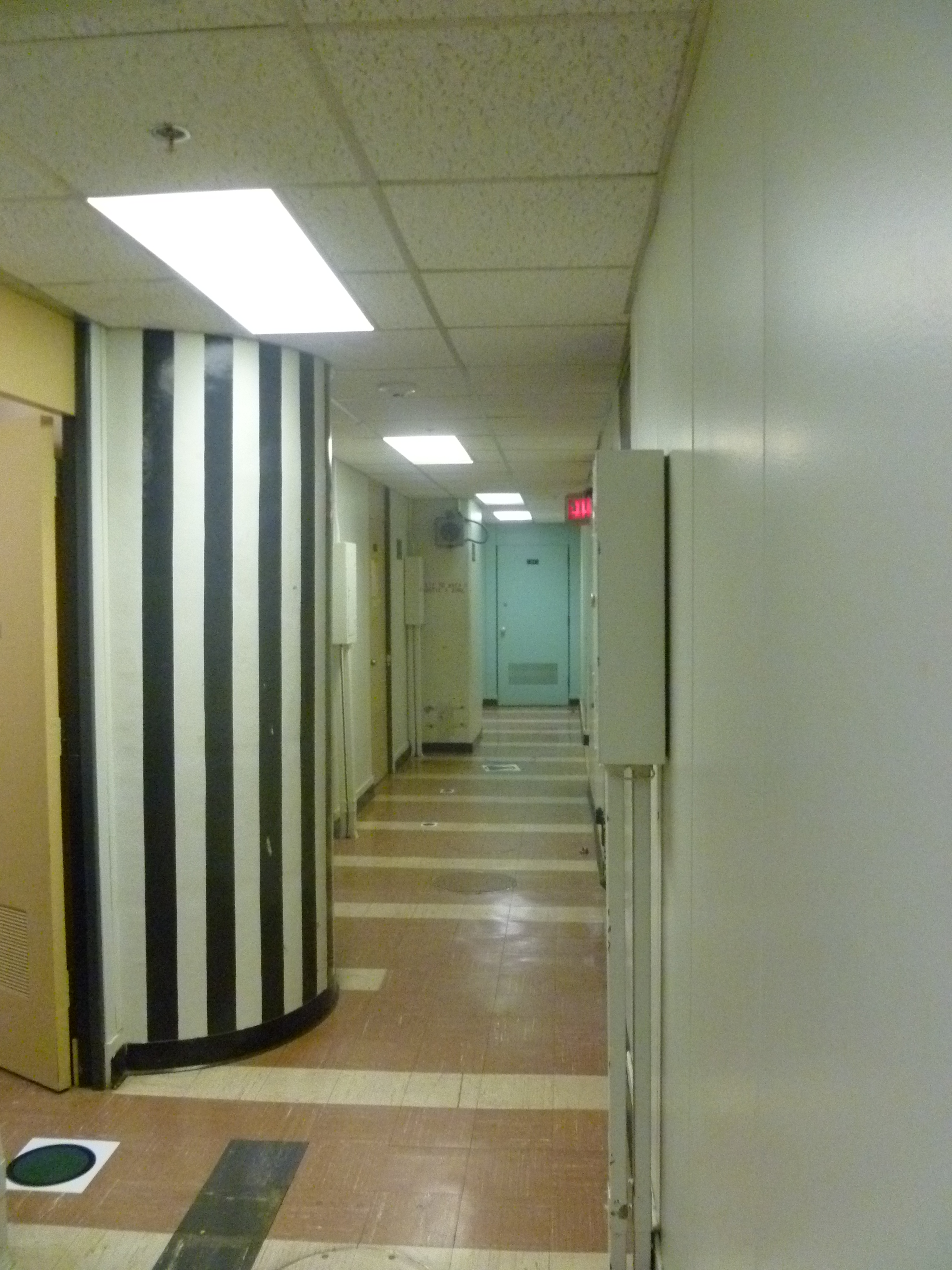 The vertical lines are to reduce claustrophobia.